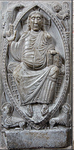 Caroligian-style bas-relief, contemporary with the main altar (consecrated in 1096)